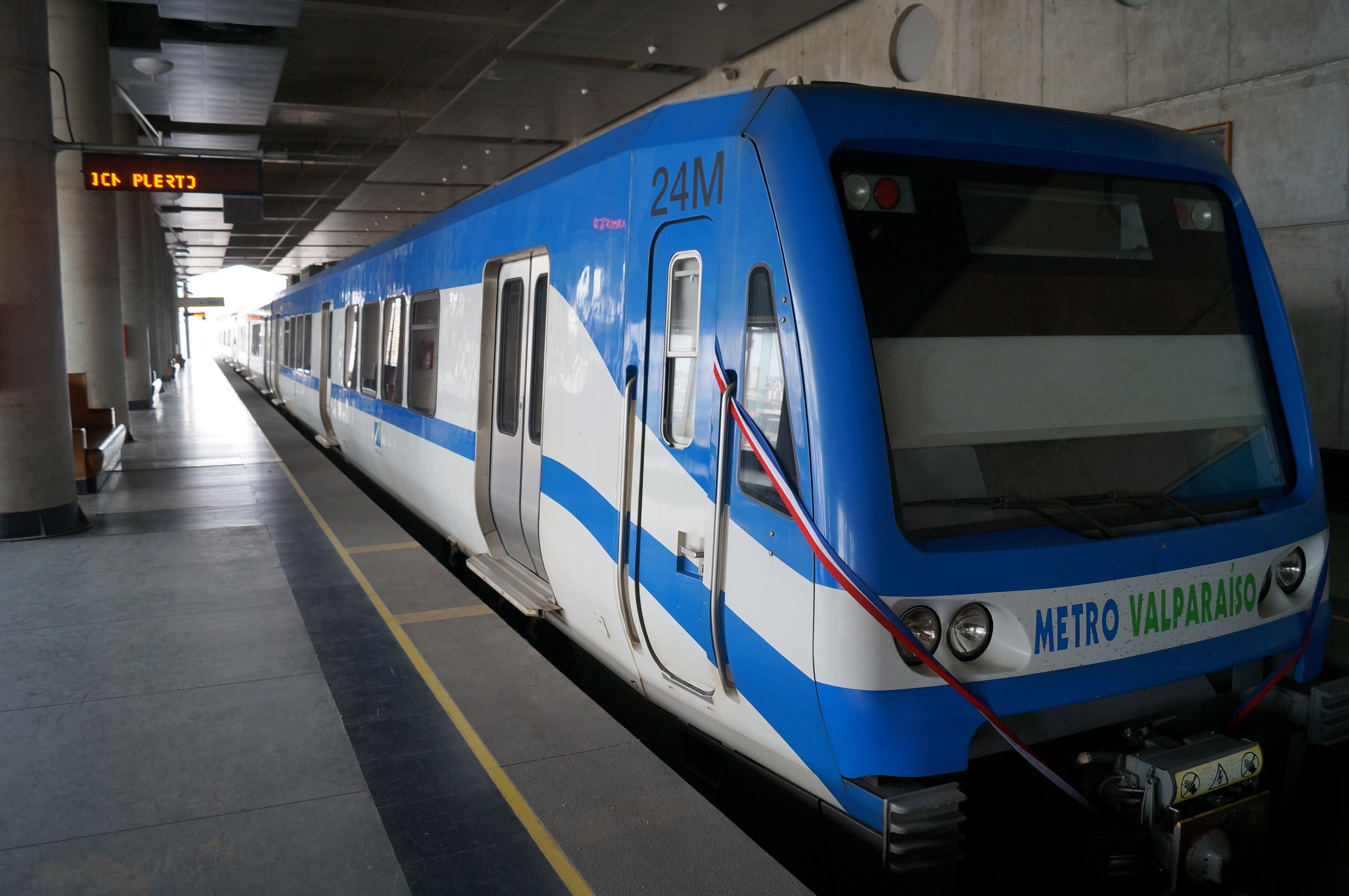 Merval